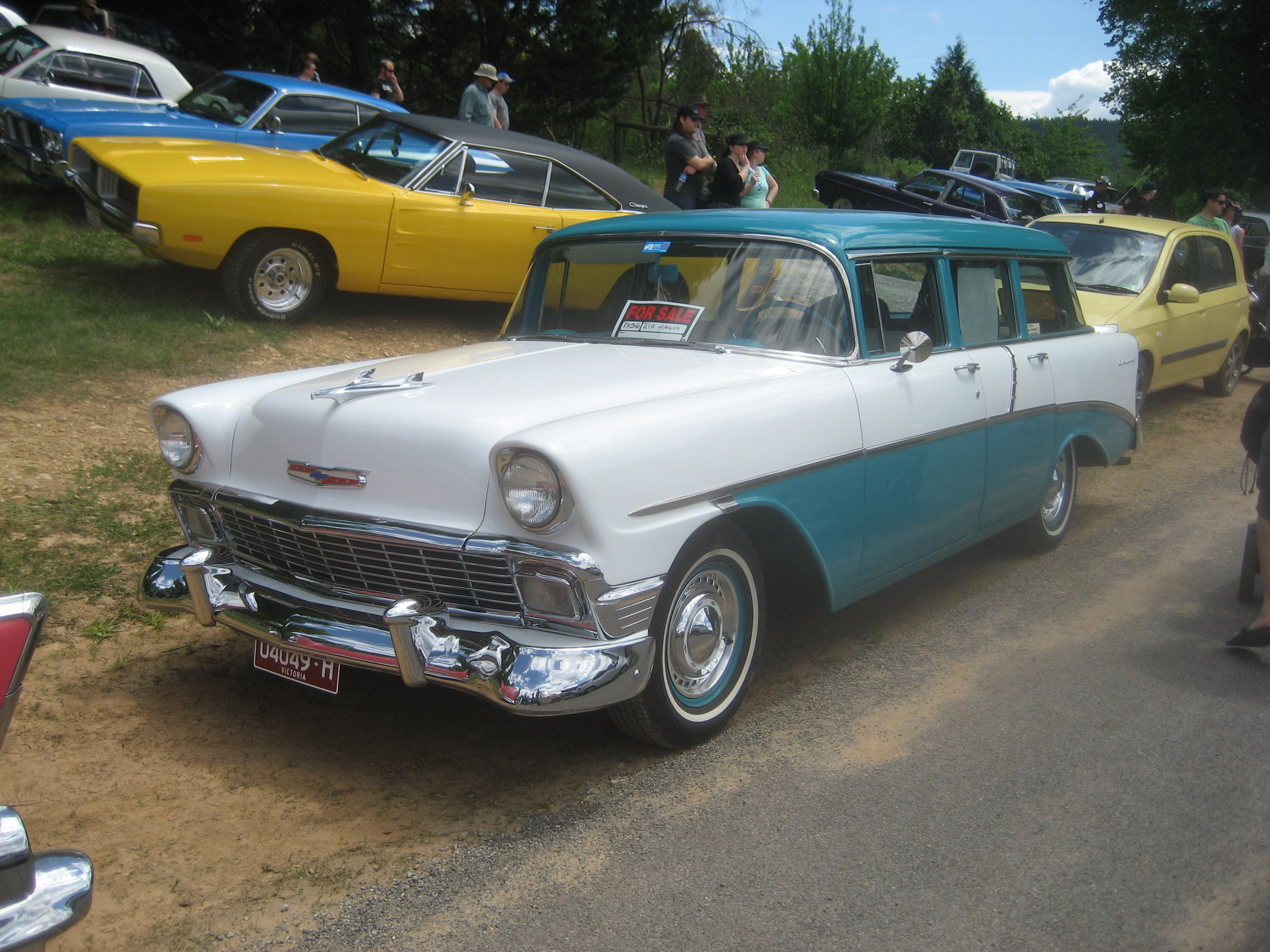 Available in Base 150, mid 210 & Belair. Bodys; Sedan, Coupe, 2 & 4 door Hardtop, Wagon & Convertible. Engine; 235 cu in 6 cyl & 265 cu in V8